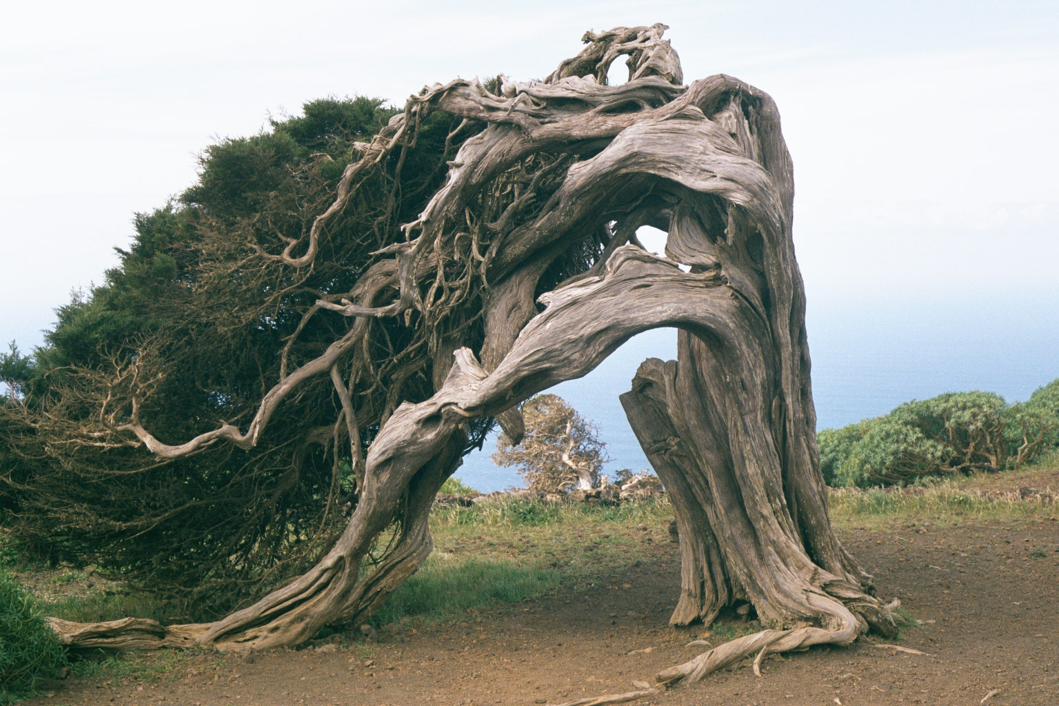 Phoenicean Juniper (Juniperus phoenicea) at El Sabinar, El Hierro, Canary Islands (Spain). Picture taken by myself in February 2003.